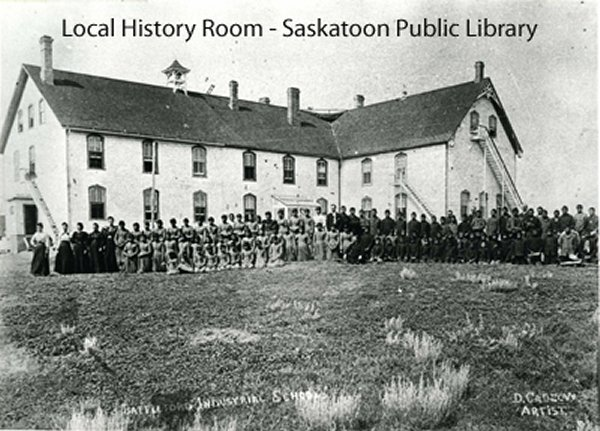 Students and staff in front of the Indian Industrial School at Battleford. Photograph shows the new east wing added in 1889. Religious and academic subjects, trade courses and a physical education program were included in the curriculum.